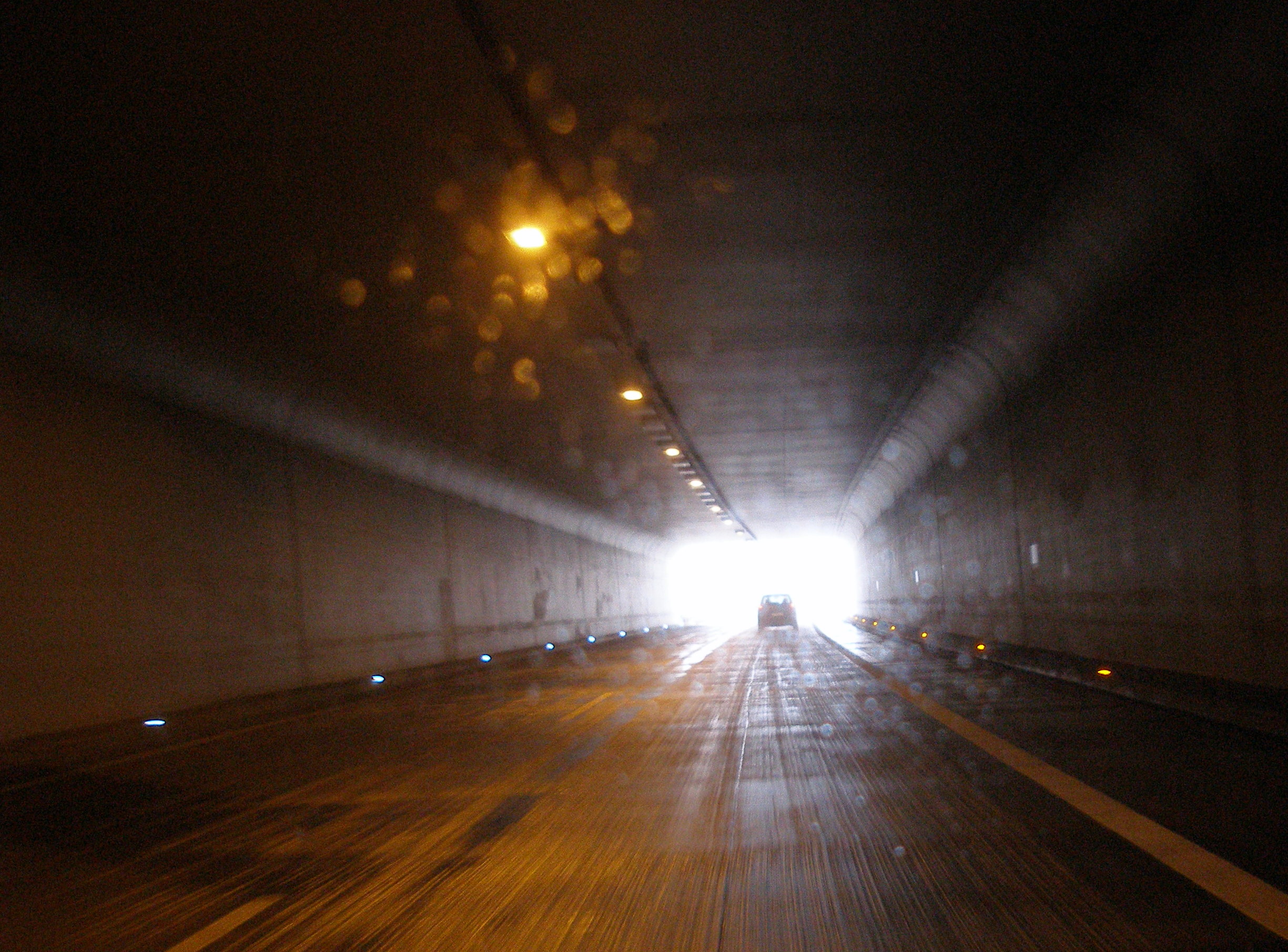 Highway D1 Slovakia